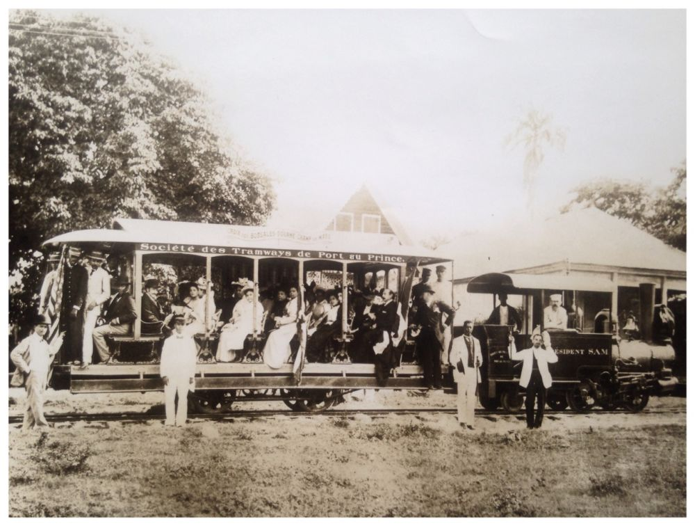 President Tirèsias Simon Sam during the Inauguration of the new Railway Line in Port-au-Prince, Haiti